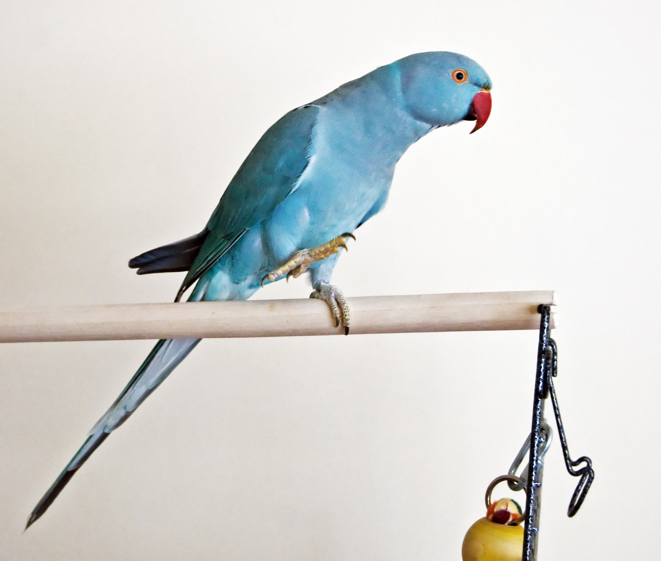 Rose-ringed Parakeet (Psittacula krameri). Pet blue mutation on a perch.